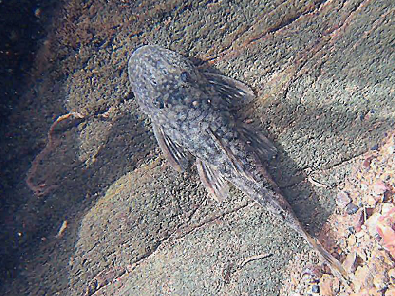 Live-color photographs of Guyanancistrus brownsbergensis, Suriname: Saramacca River, Brownsberg Mountains, Irene Falls (K. Wan Tong You)